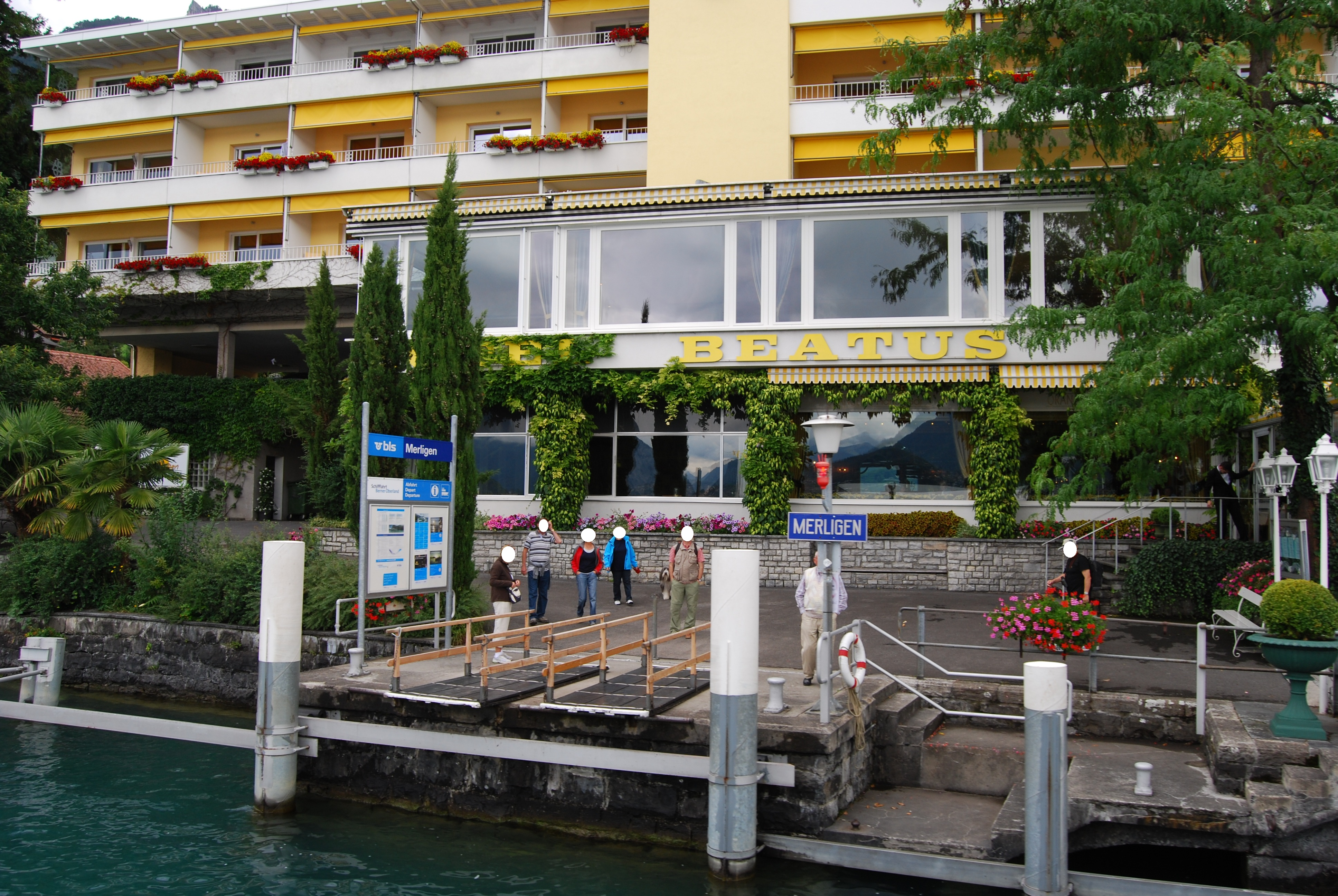 Merligen, municipality of Sigriswil, canton of Bern, Switzerland